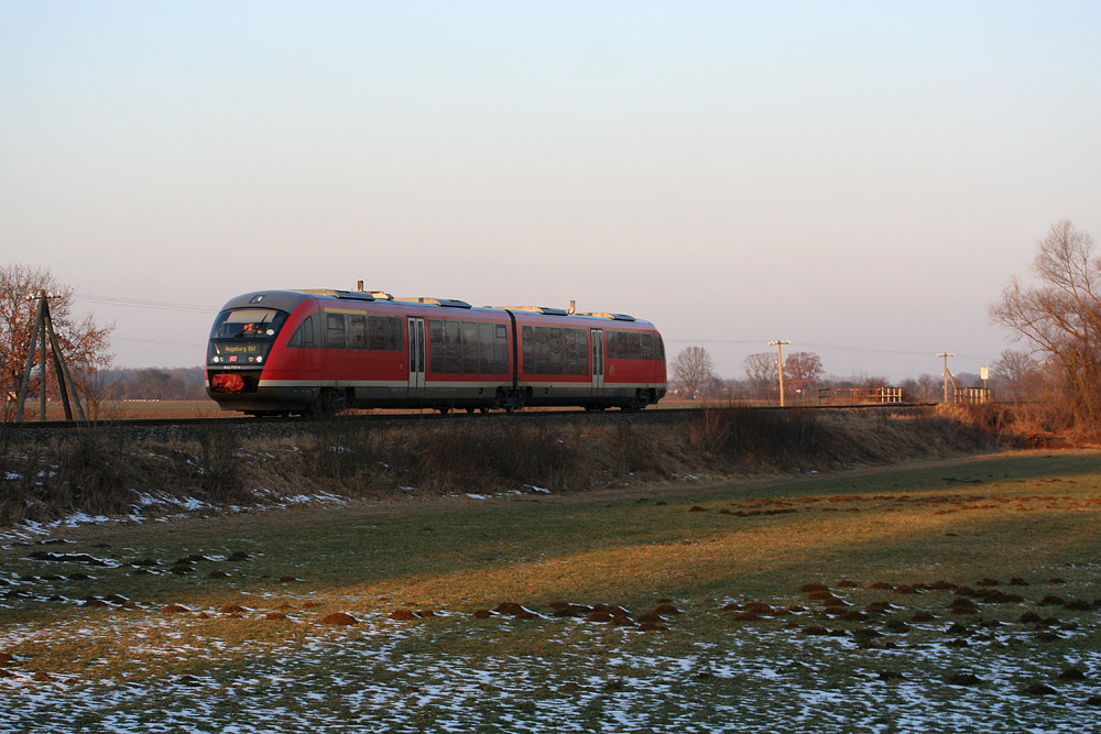 A DB class 642 on the Paartal railway line between Ingolstadt and Augsburg